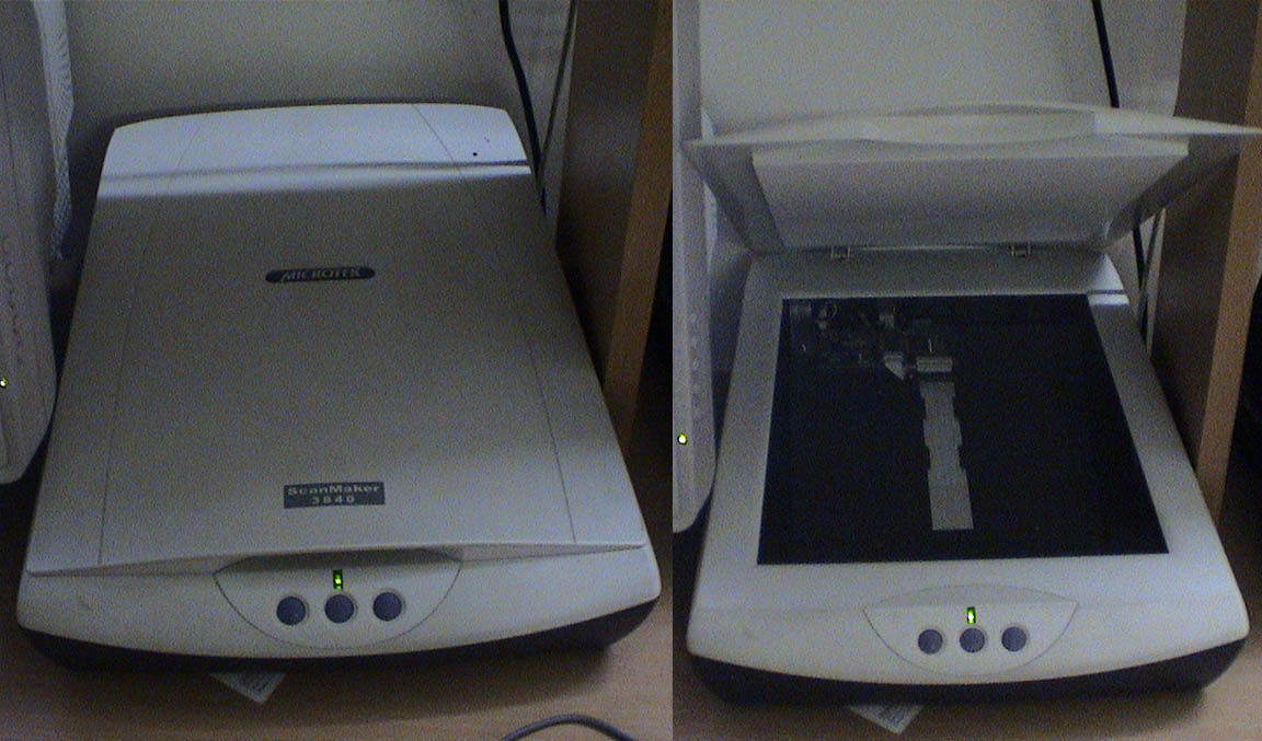 Microtek ScanMaker 3840 flatbed scanner.